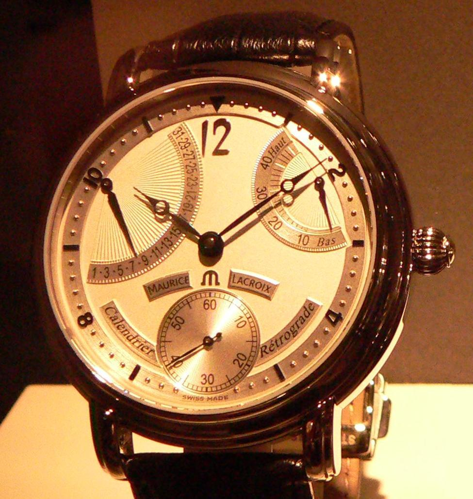 Maurice Lacroix calendrier retrograde watche